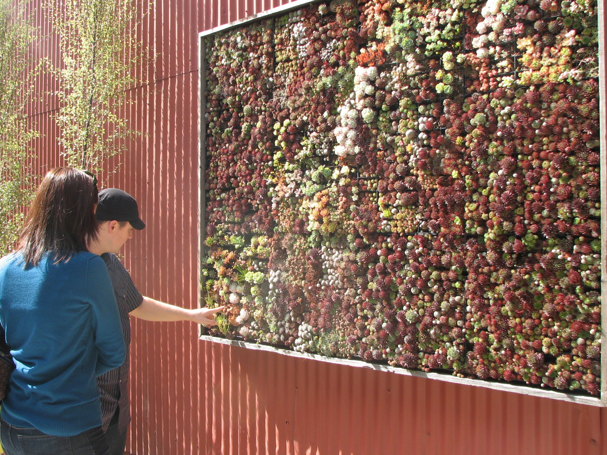 The succulent 'wall' at Flora Grubb, a nursery in San Francisco. The planting is primarily Sempervivums, with a few Echeverias and Crassulas here and there.